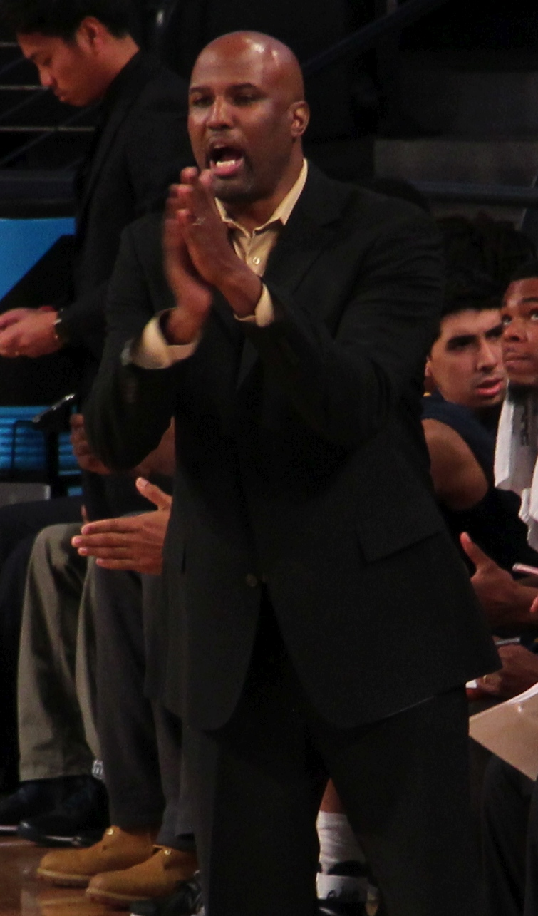 NC&AT Basketball coach Jay Joyner, December 2016